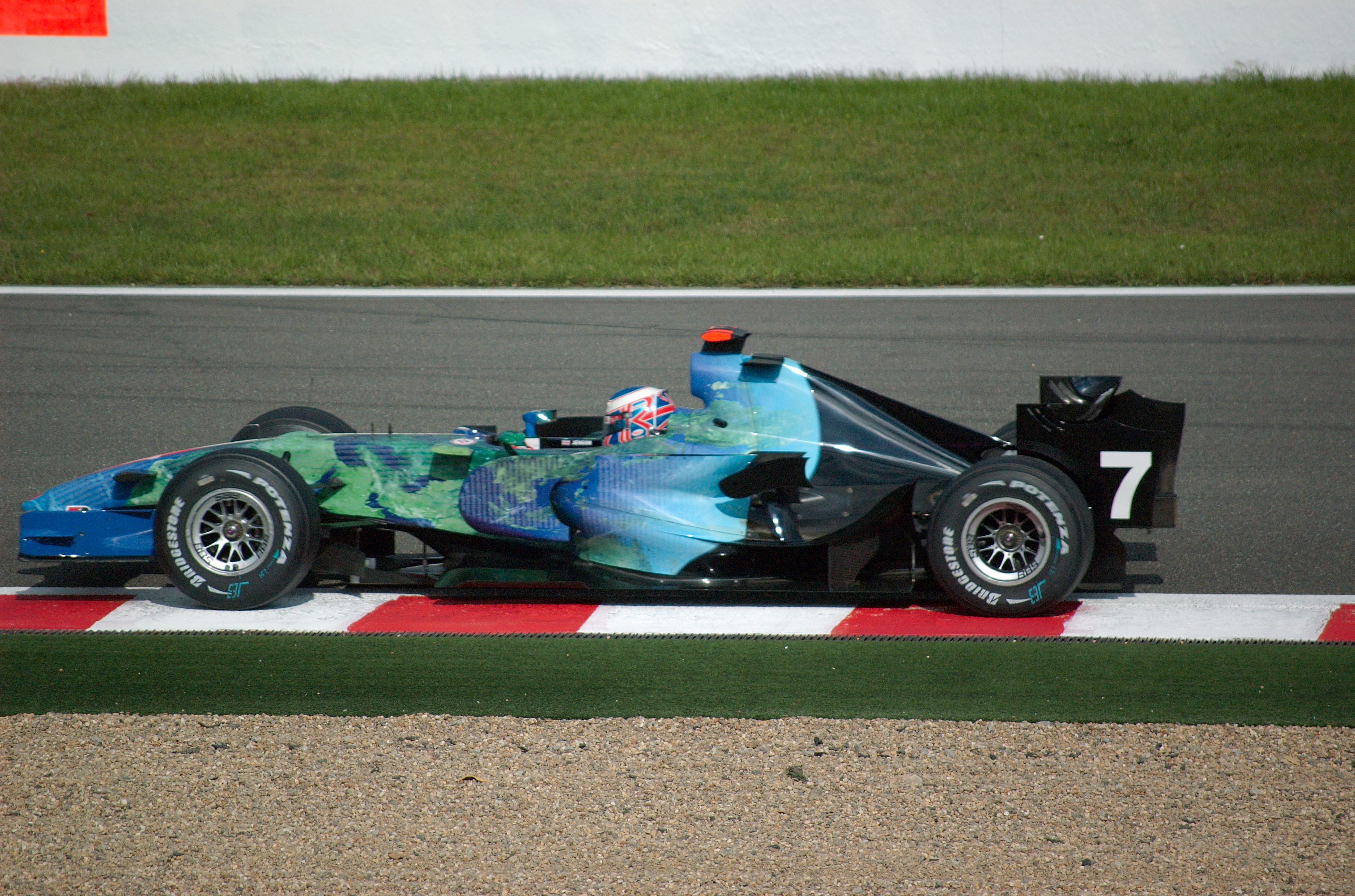 Jenson Button driving for Honda at the 2007 Belgian Grand Prix.